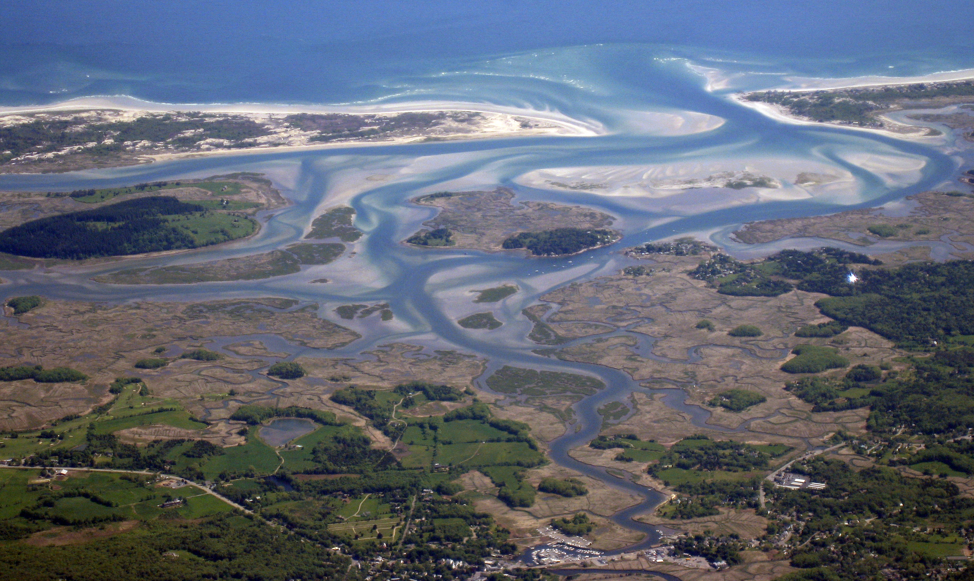 Aerial View of Great Marsh in Massachusetts